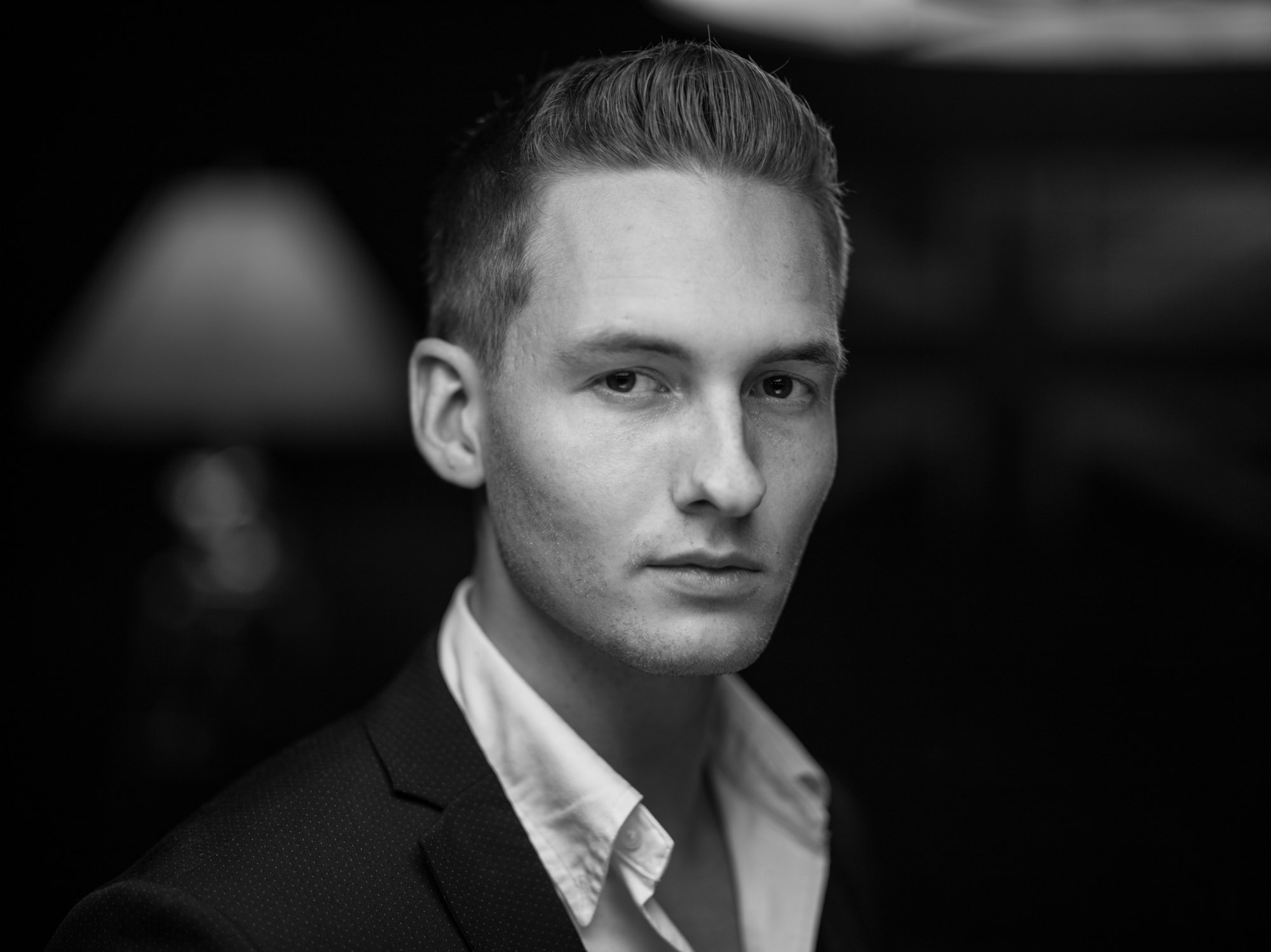 Photo of Theodor Forselius in Los Angeles, California. Febuary 2018.